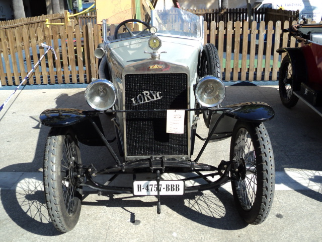 Modell Loryc 1921